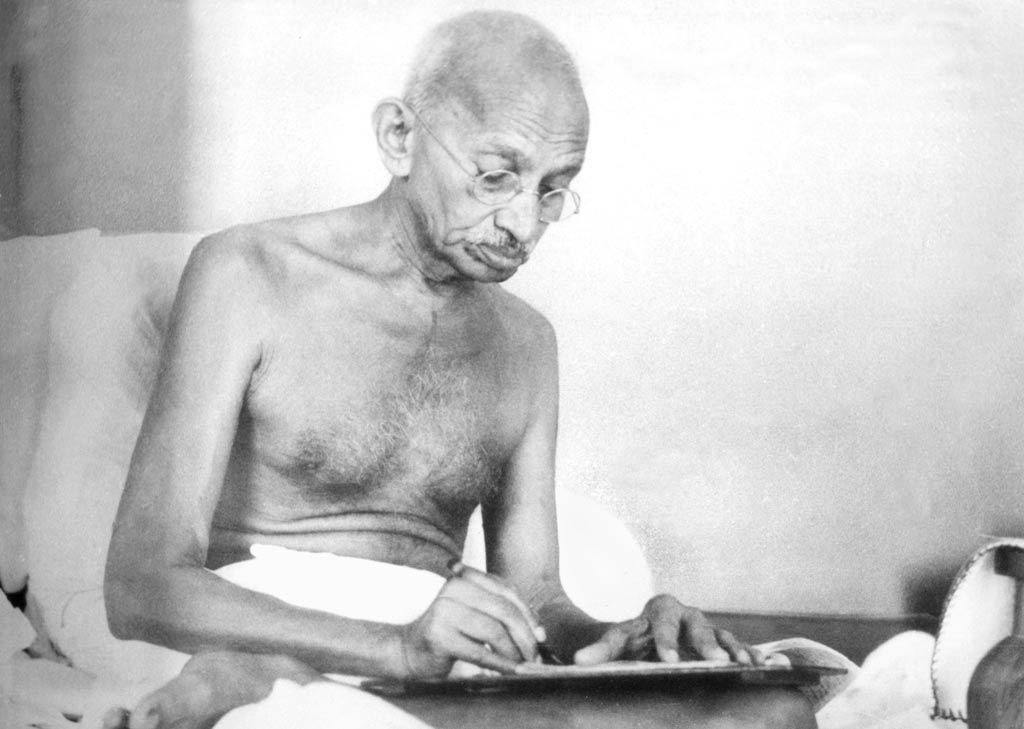 Gandhi writing a document at Birla House, Mumbai, August 1942.